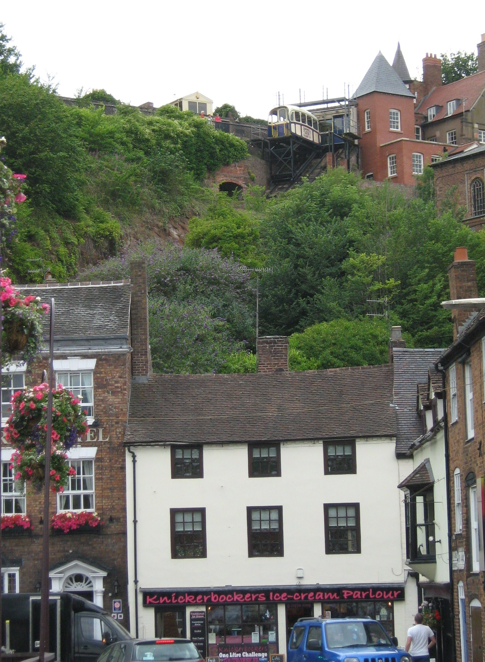 One of Bridgnorth Cliff Railway's cabs at the top station in the picture, that are shot from the same niveau as the bottom station. July 13, 2011.